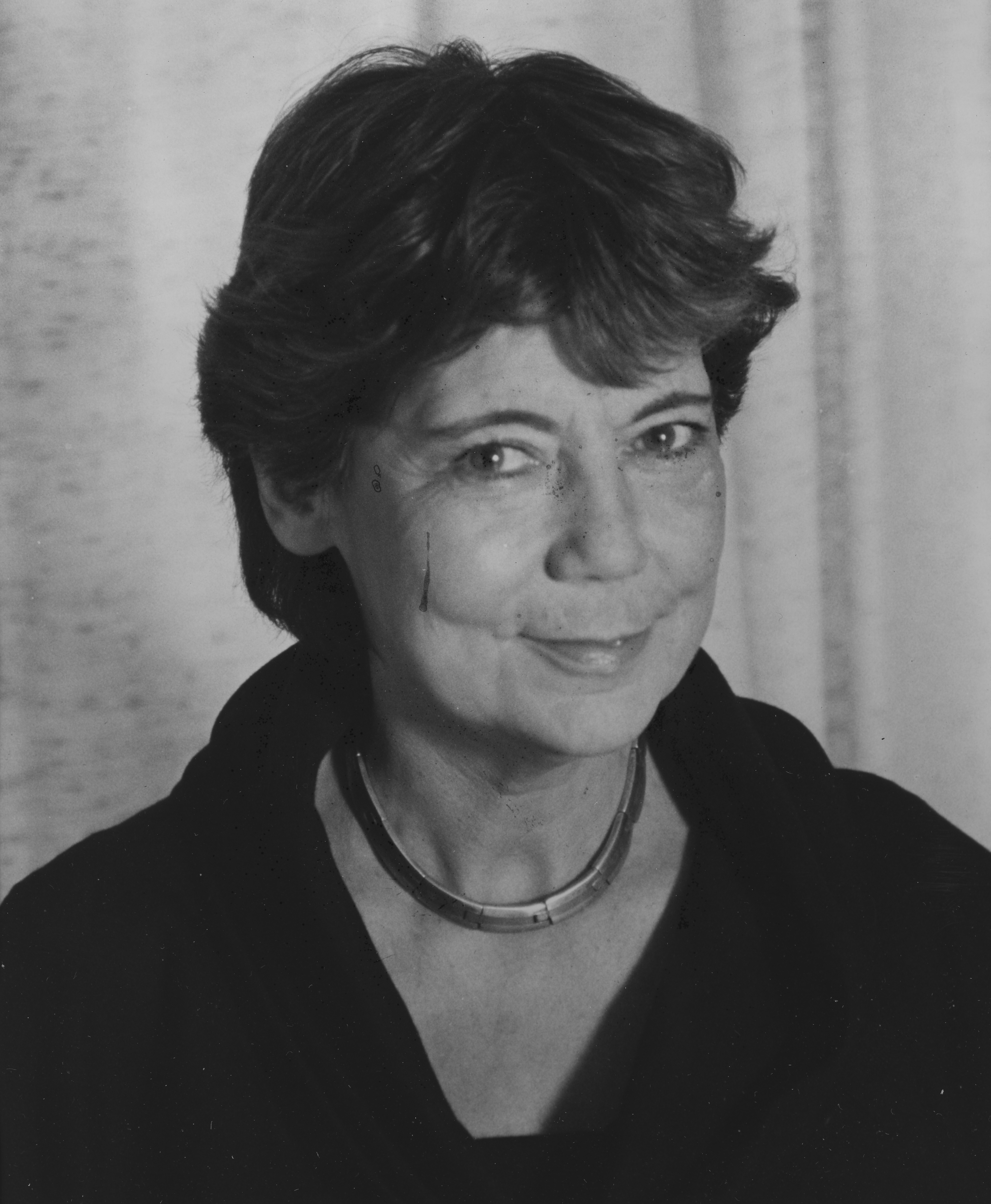 Professor of Social Psychology 1964-1983 (Original image marked) IMAGELIBRARY/1276 Persistent URL